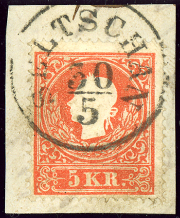 Austrian KK 5 kreuzer stamp, cancelled at SELTSCHAN, around 1859, Bohemia - Mueller 25 rarity Points